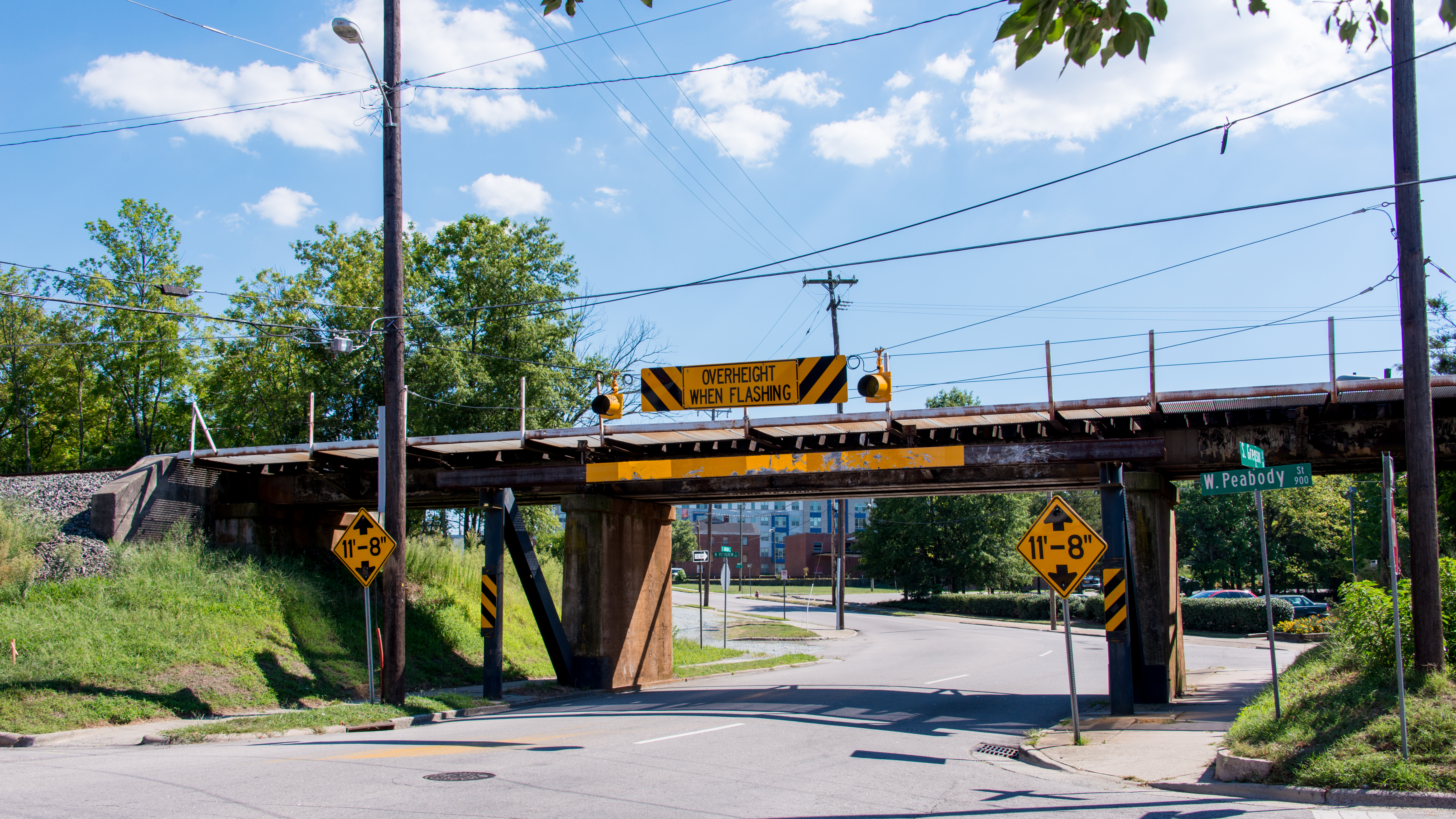 The famous Gregson Street Guillotine. Built-in 1940, the Norfolk Southern-Gregson Street Overpass is located at the Gregson and Peabody intersection, in downtown Durham, North Carolina; it is famous for being constantly being hit by trucks who ignore the numerous height warnings. The bridge was recently reconstructed by an extra 8 inches so the bridge is now 12 feet and 4 inches.